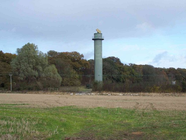 Radar Tower, Shawbury Airfield